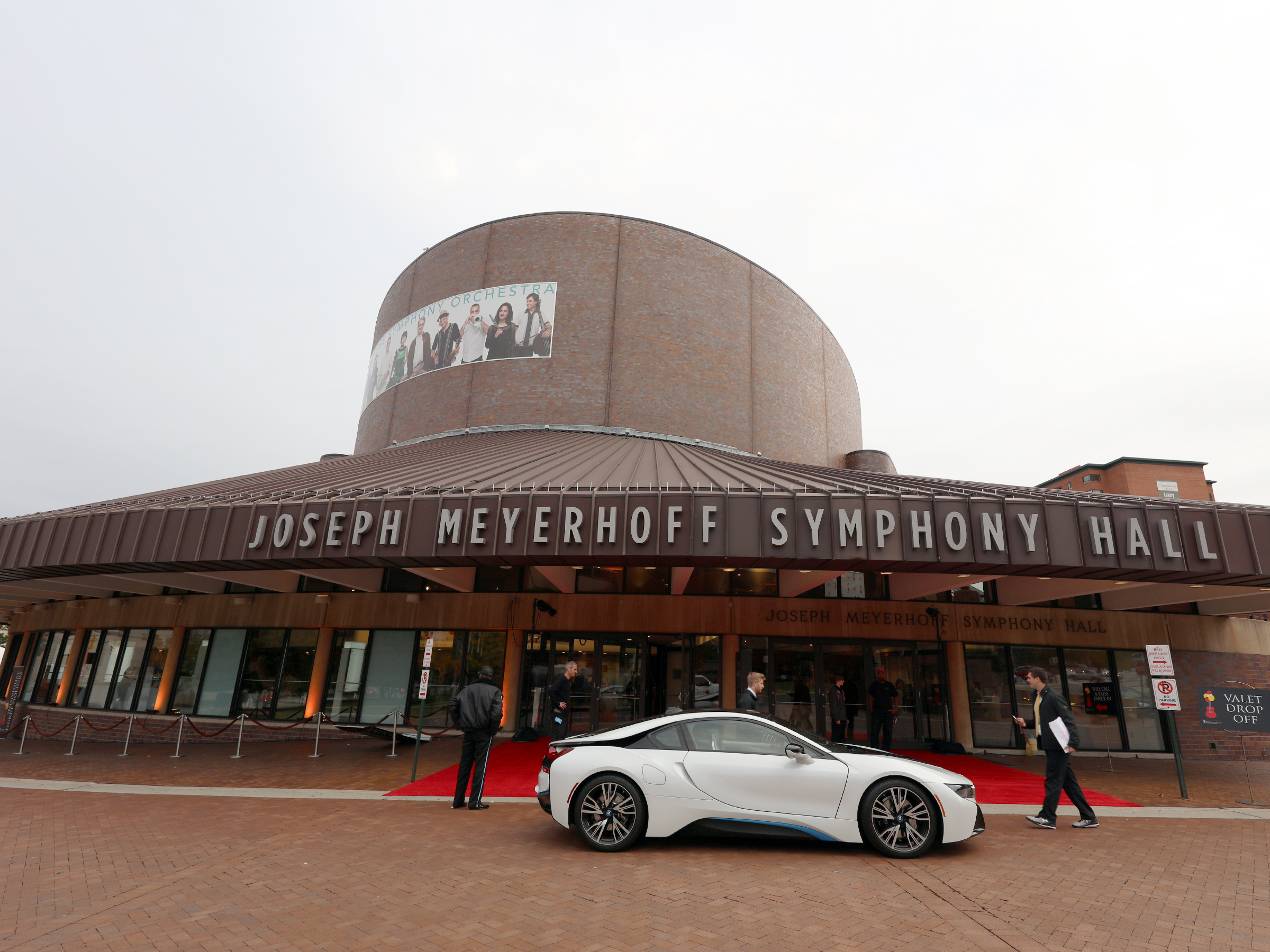 Exterior view of the Meyerhoff Symphony Hall